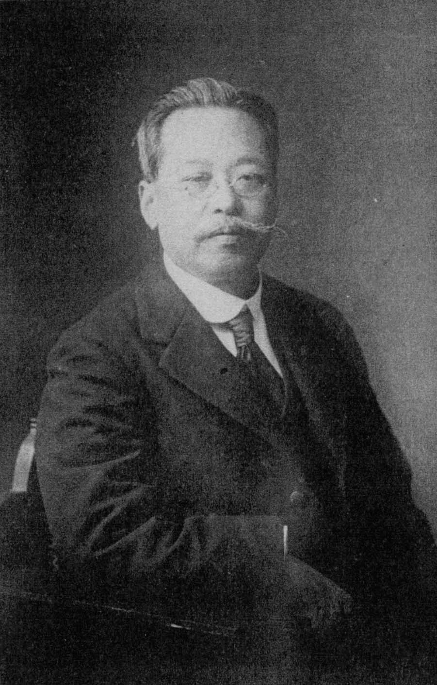 Portrait of Late Mr. Teisuke Fujishiro.